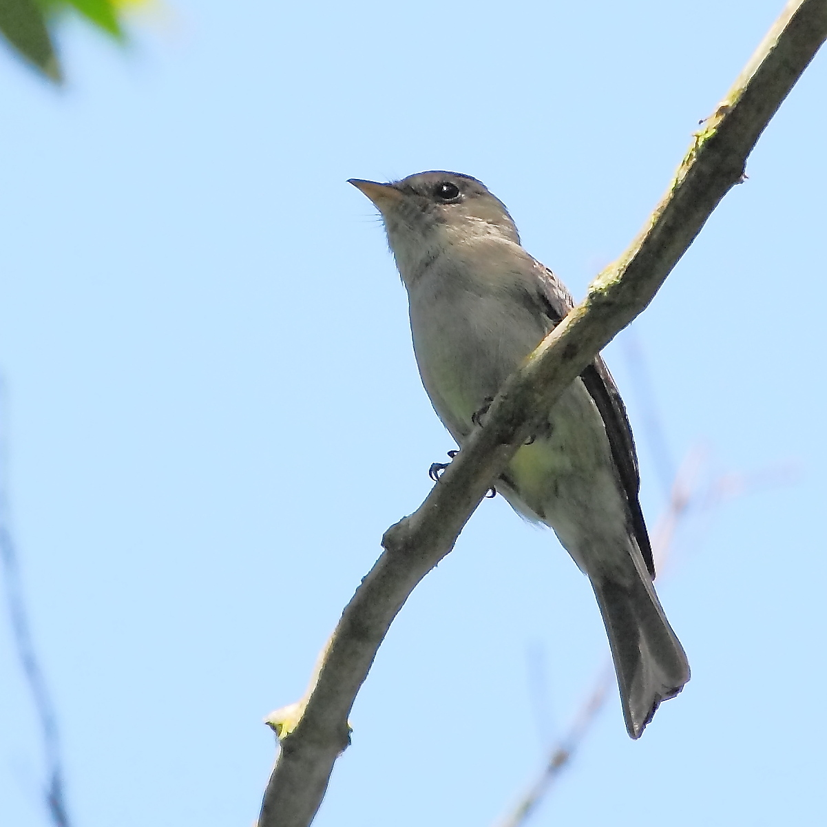 Tropical Pewee at Bertioga - SP - Brazil